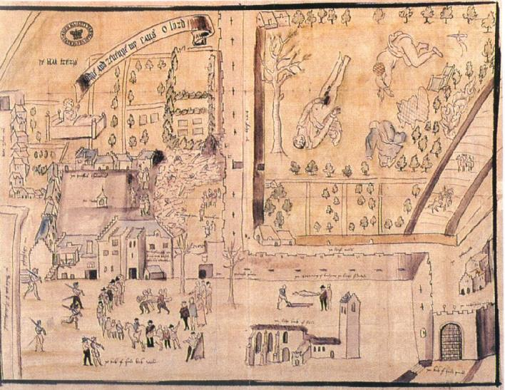 Drawing of the Kirk o' Field after the murder of Henry Stuart, Lord Darnley. Original size: 40×57.5cm.